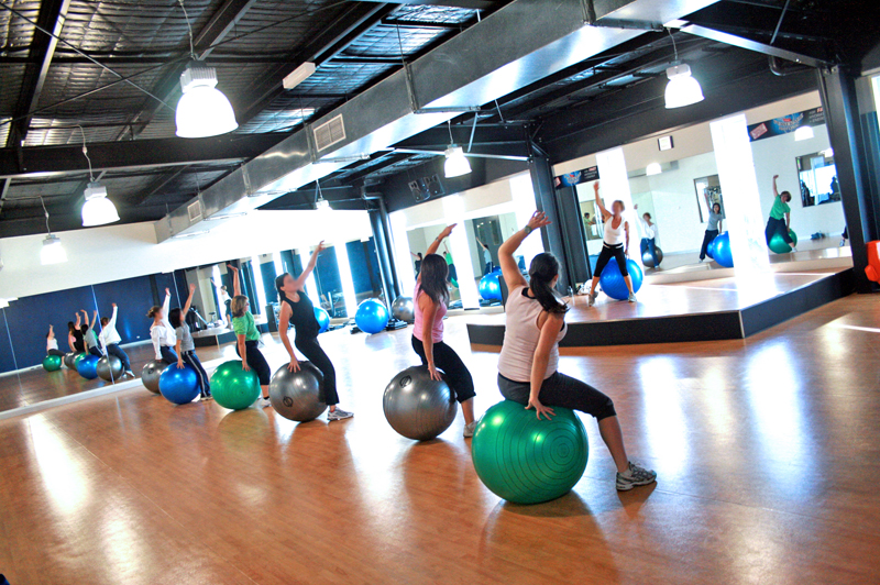 Fitball Group Fitness Class